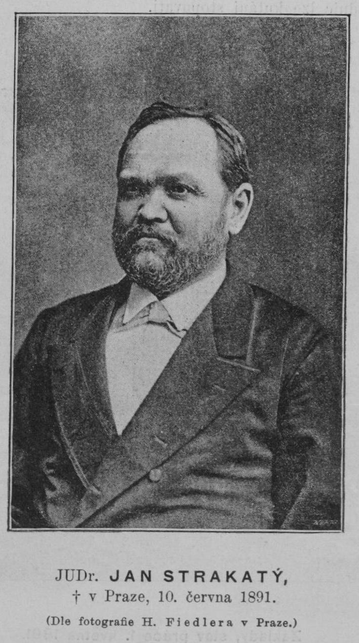 Portrait of Jan Strakatý (1835 - 1891), Czech lawyer, member of Czech parliament and supporter of amateur theater.